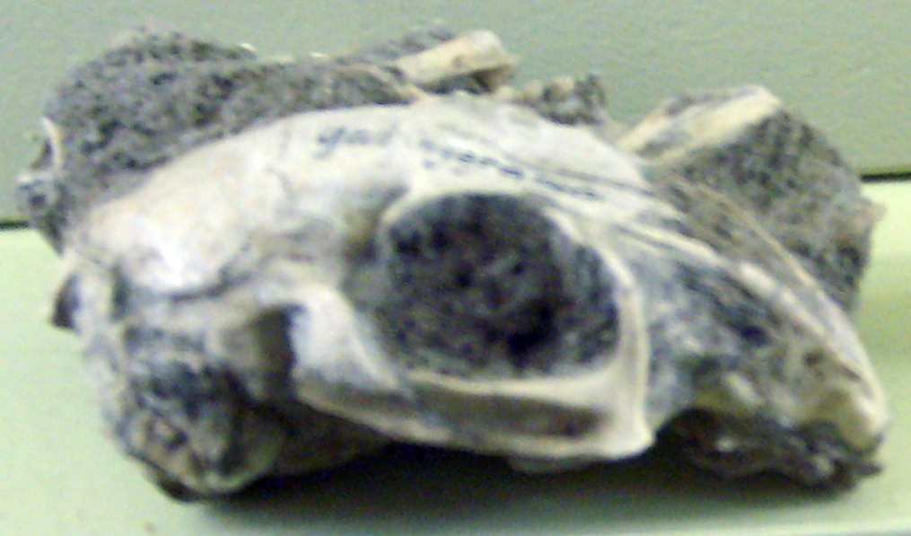 Serengetilagus praecapensis skull, Naturkunde Museum, Berlin.